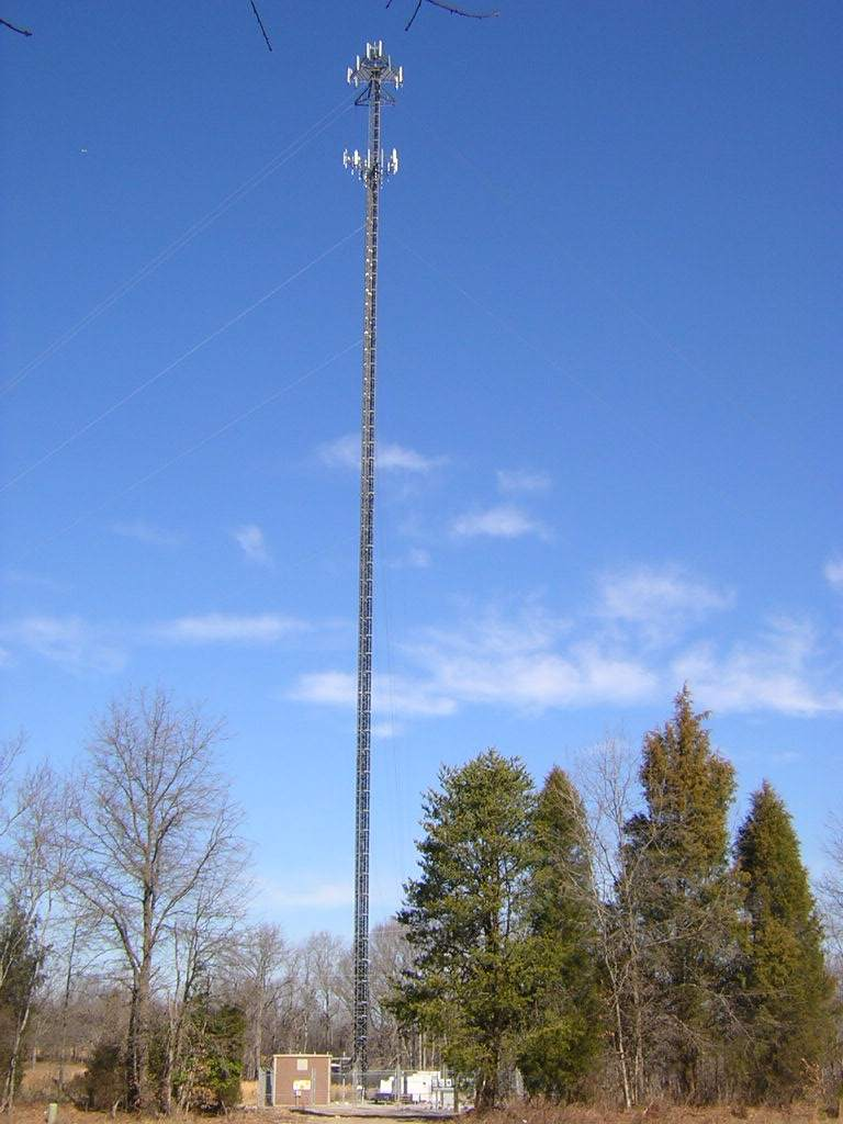 Cingular/SunCom site located at 492 High Point Road in Gaffney, South Carolina. Taken February 10, 2007